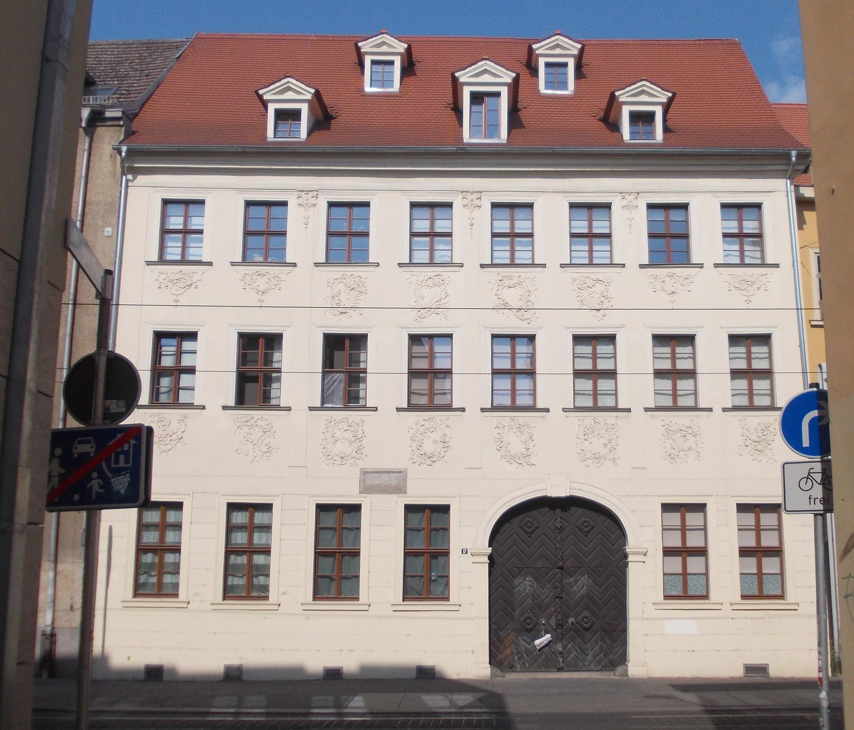 No. 17, Rannische Straße in halle/Saale (Saxony-Anhalt)